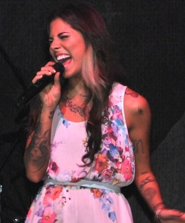 Christina Perri singing "Distance" in the Lovestrong Tour at San Juan, Puerto Rico